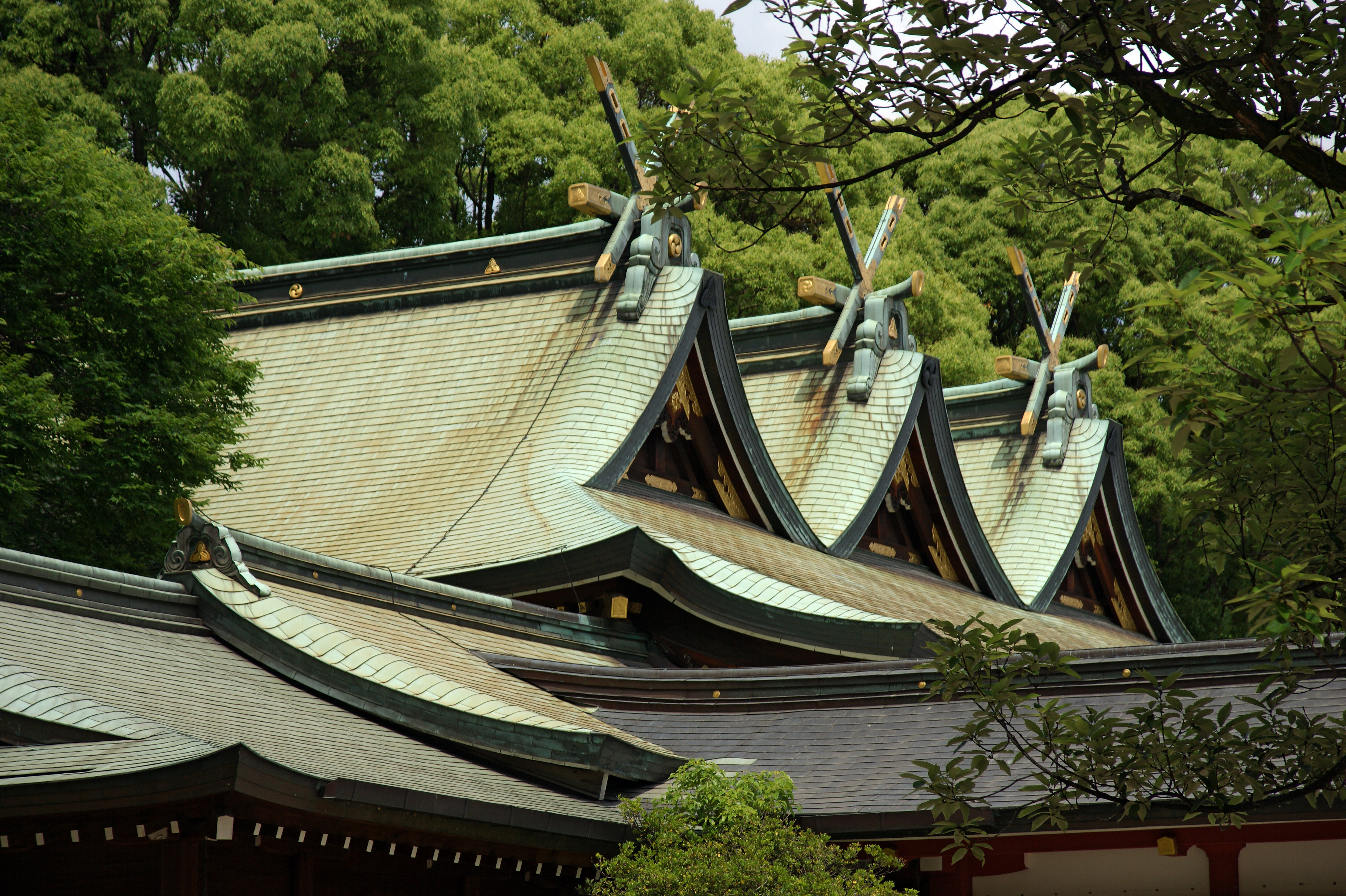 Nishinomiya-jinja in Nishinomiya, Hyogo prefecture, Japan